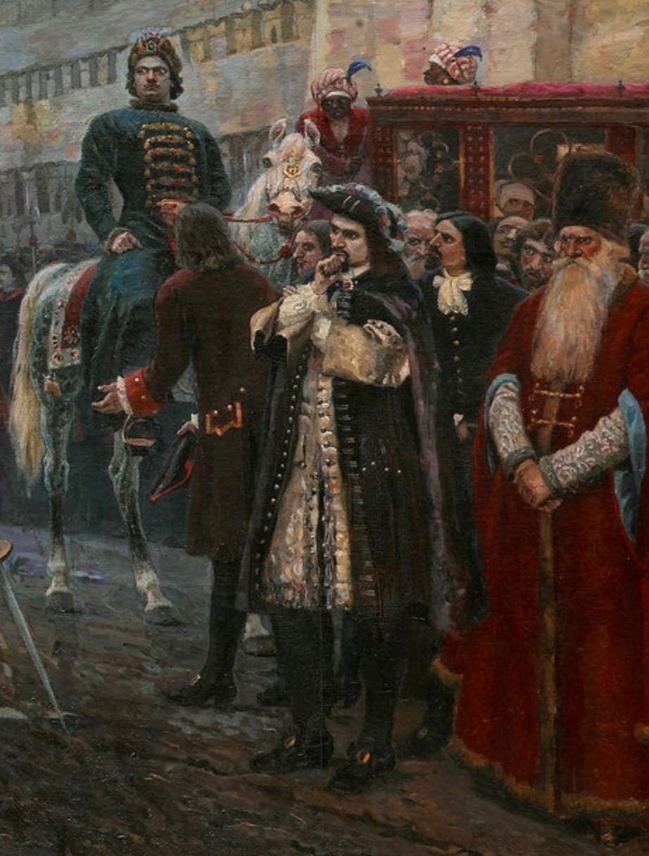 Detail of the painting "Morning of streltsy's beheading" by Vasily Surikov (1881)